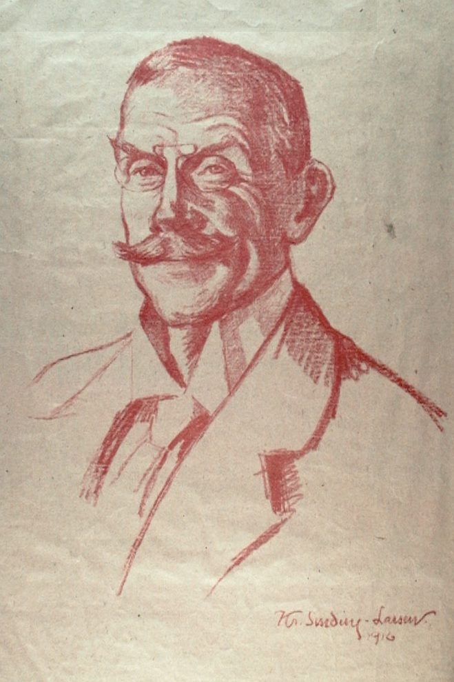 Norwegian medical doctor Lyder Wentzel Christie Nicolaysen (1866–1927). Painted in 1916.